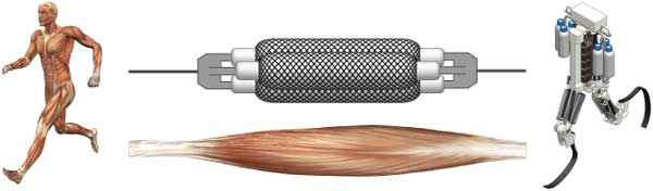 An image of an artificial muscle